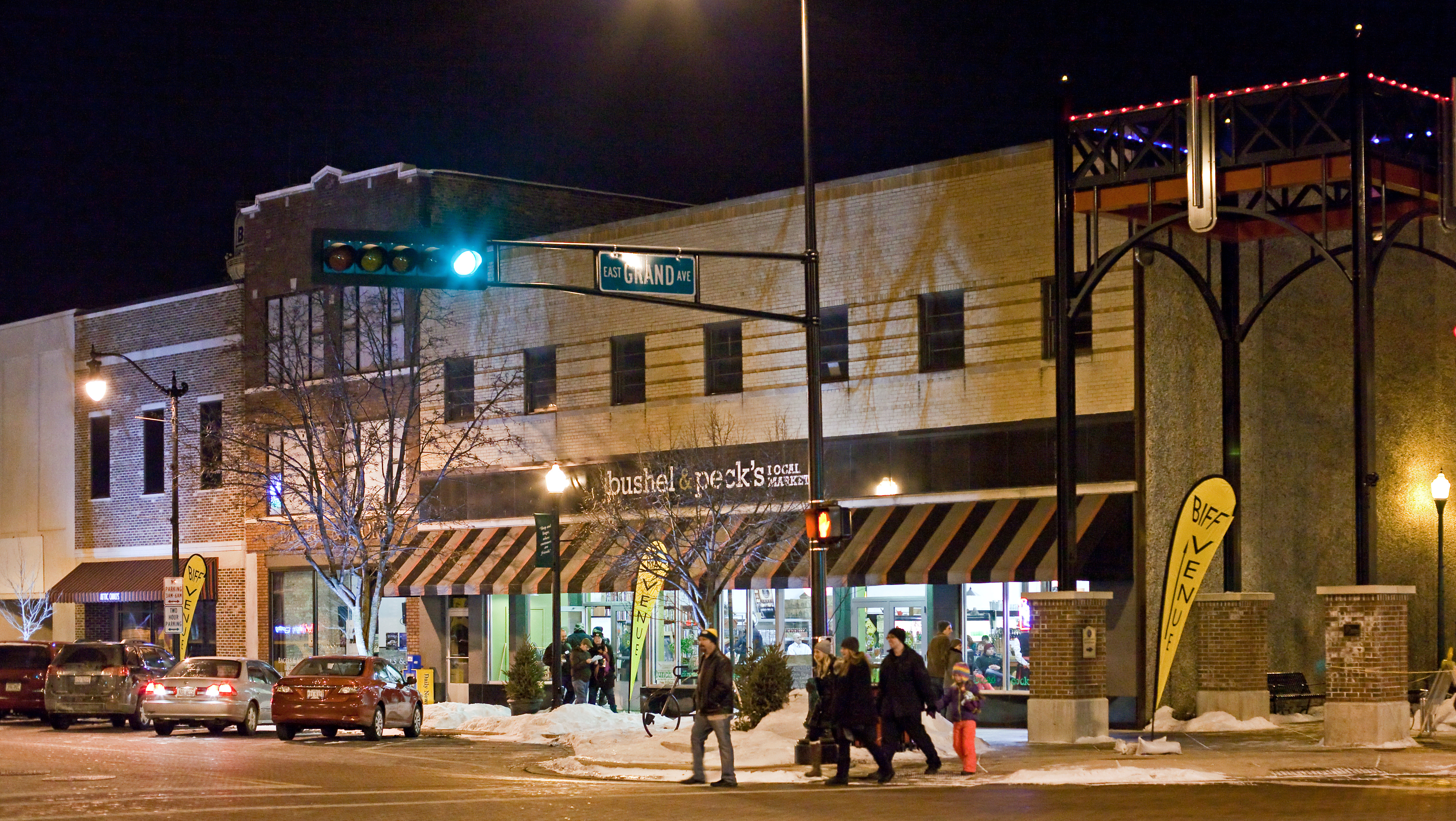 Most film screening venues are in downtown Beloit and within easy walking distance one of each other.